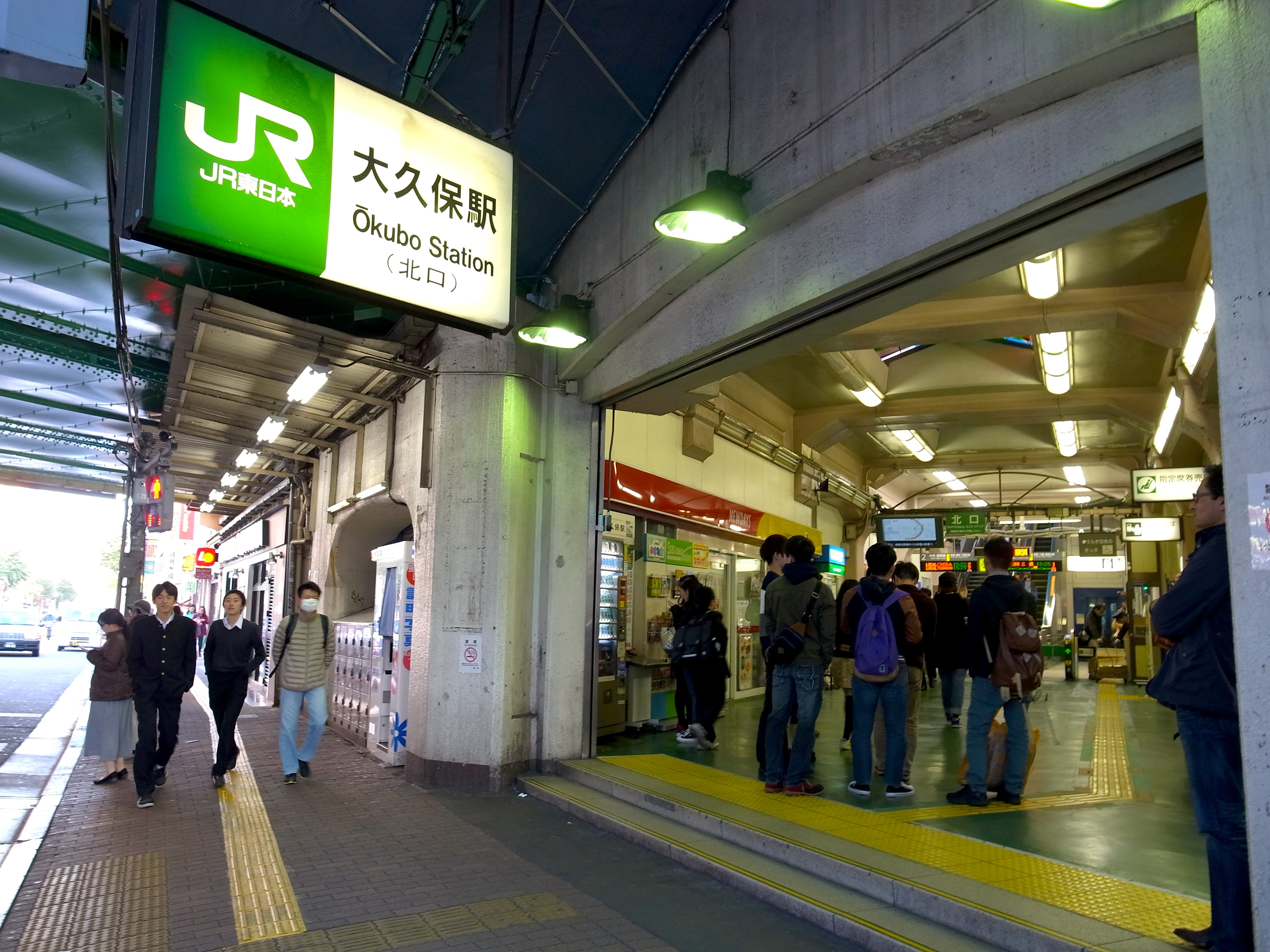 Ōkubo Station North exit